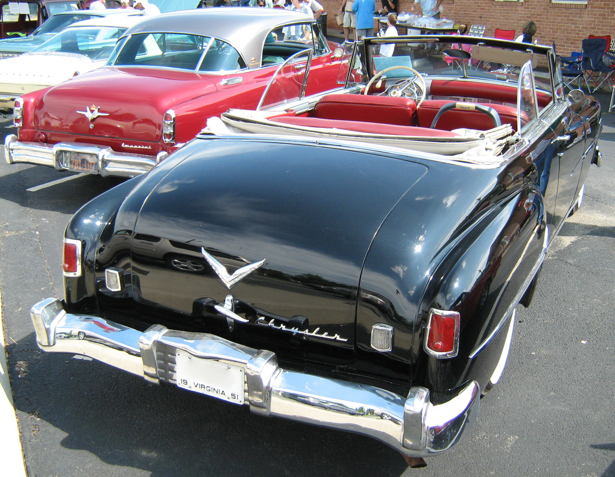 1951 Chrysler New Yorker convertible with the FirePower Hemi engine.